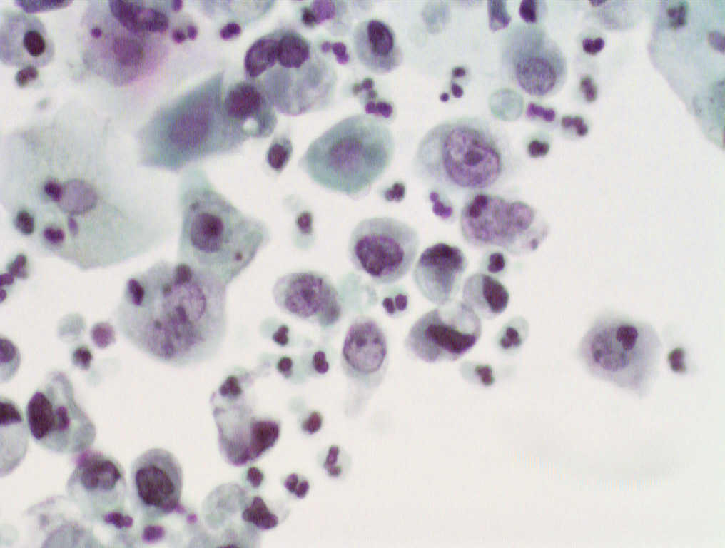 Urine citology, PAP 400x. Severe urothelial atypia (urothelial carcinoma)